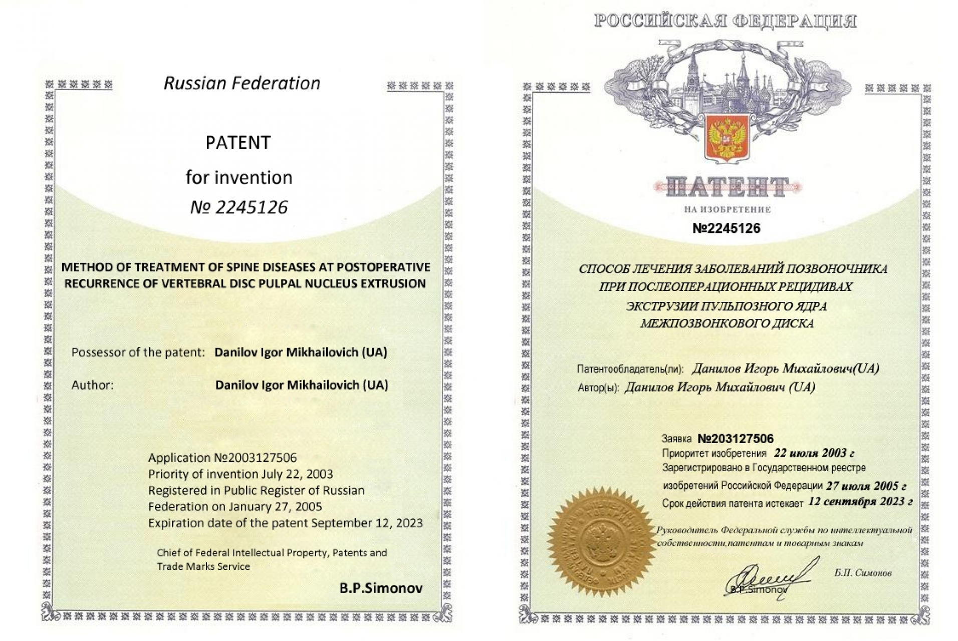 Invention patent No. 2245126 (Russia), with unofficial English translation (left)